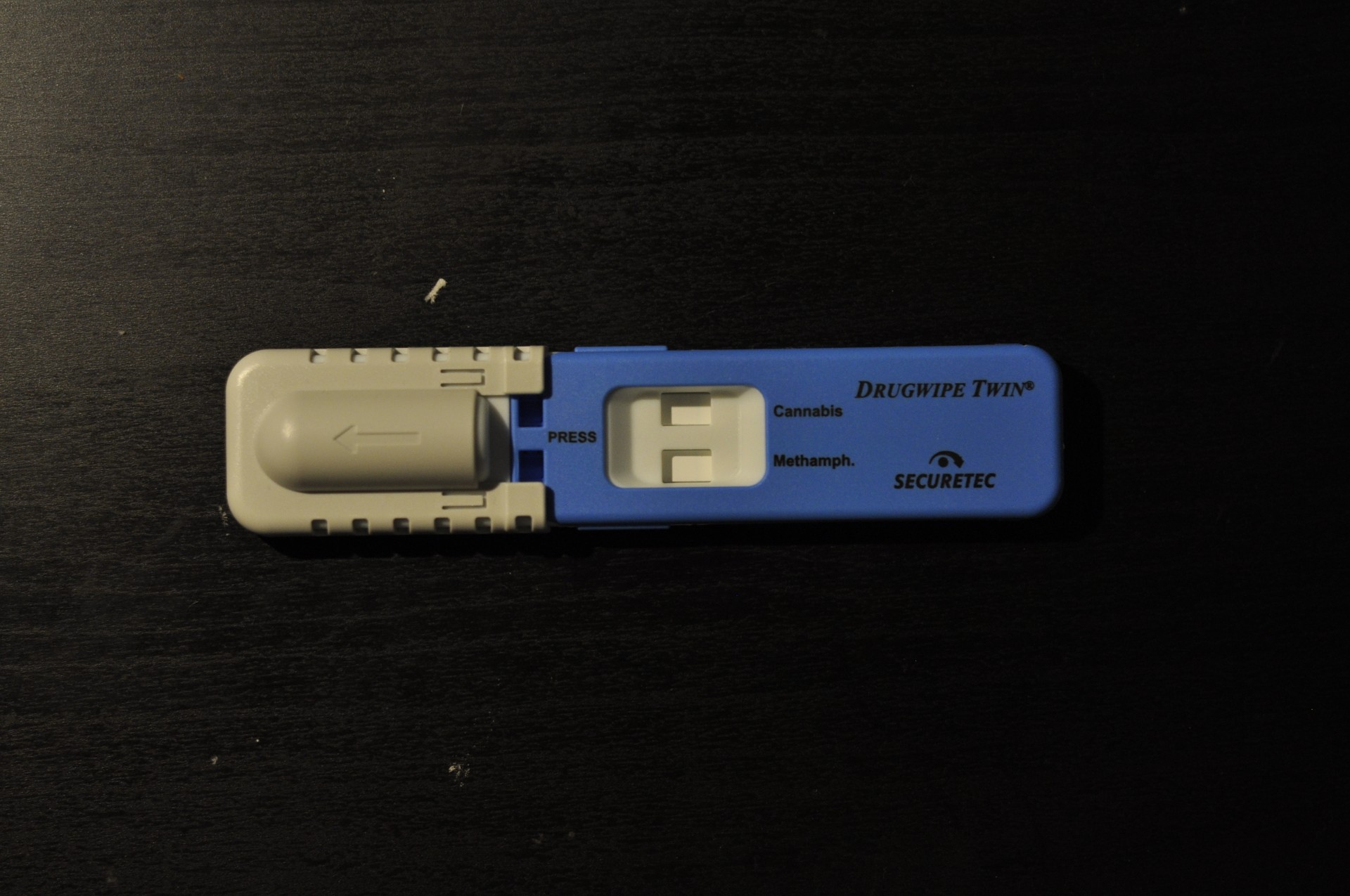 Drugwipe twin saliva drug test